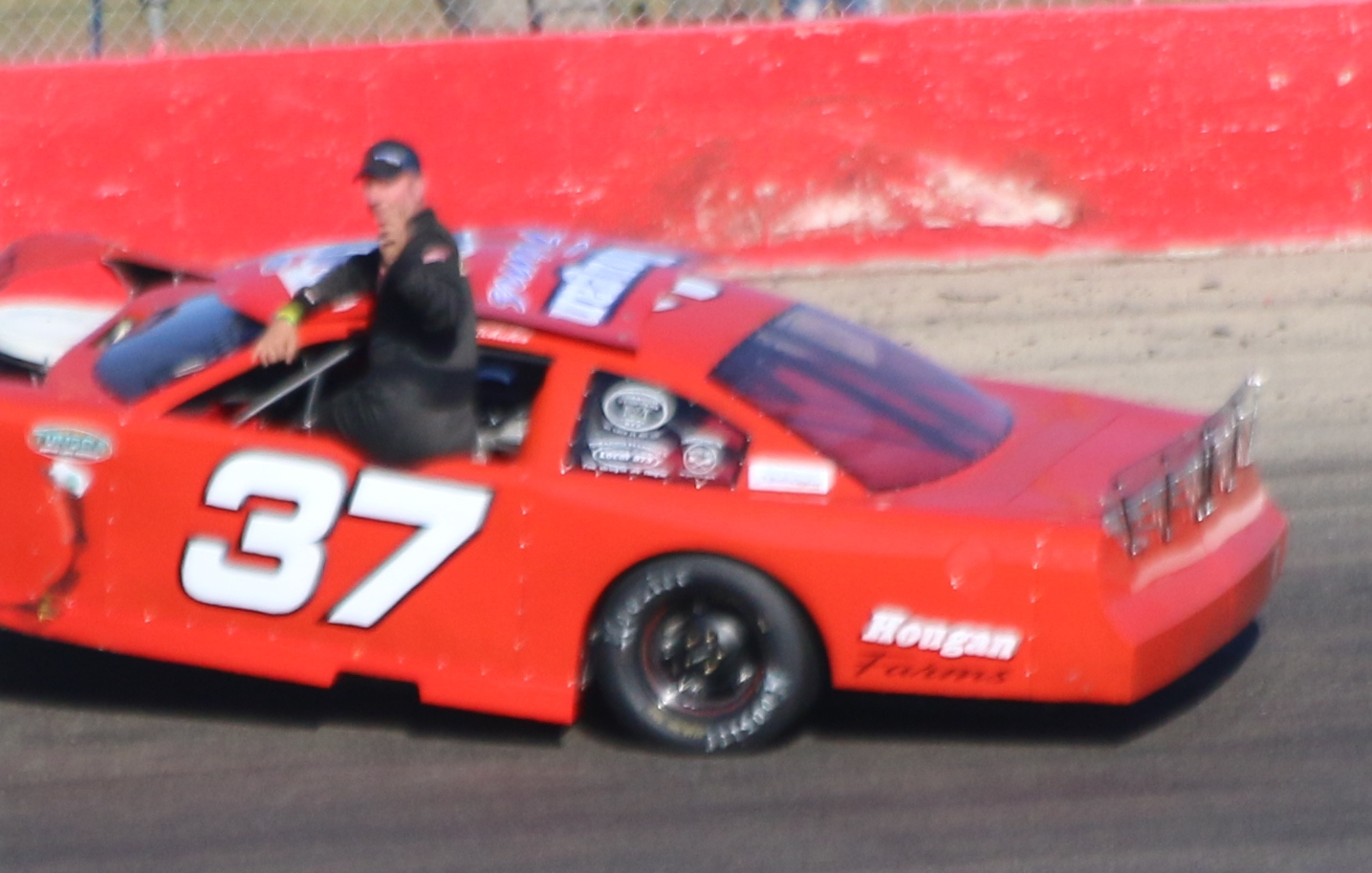 The TUNDRA Super Late model of Jason Schuler after being involved in a wreck at Jefferson Speedway. The announcer noted it was Schuler's return to late model racing.